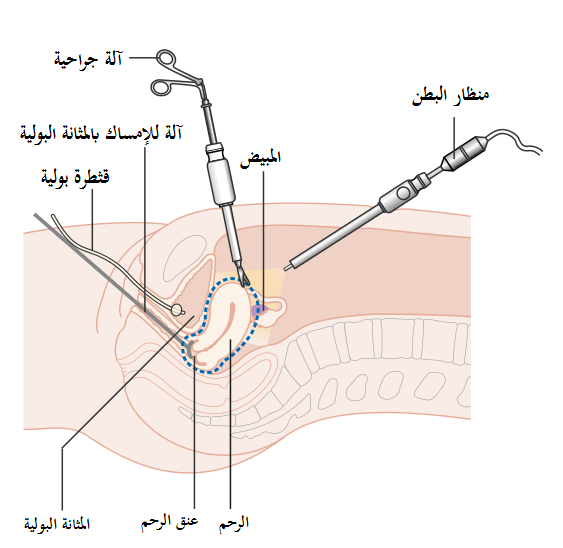 رسم يوضح استئصال الرحم عن طريق منظار البطن